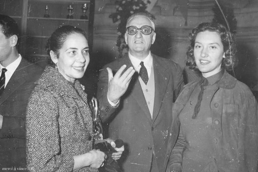 Italian racecar drivers Anna Maria Peduzzi (left) and Gilberte Thirion (right), and Enzo Ferrari (middle). The two drivers had just began racing the 1956 Ferrari 500 TR s/n 0620MDTR.